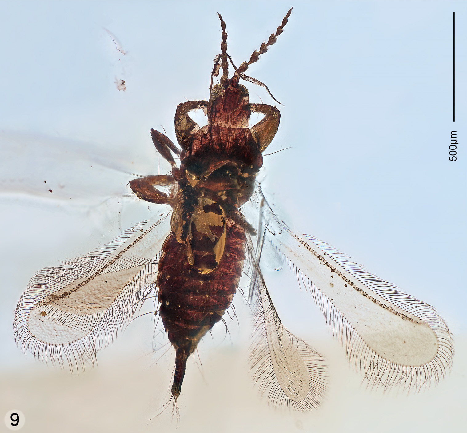 FIGURES 9–13. Rohrthrips burmiticus, holotype male (MU-Fos-53/1). (9) dorsal view